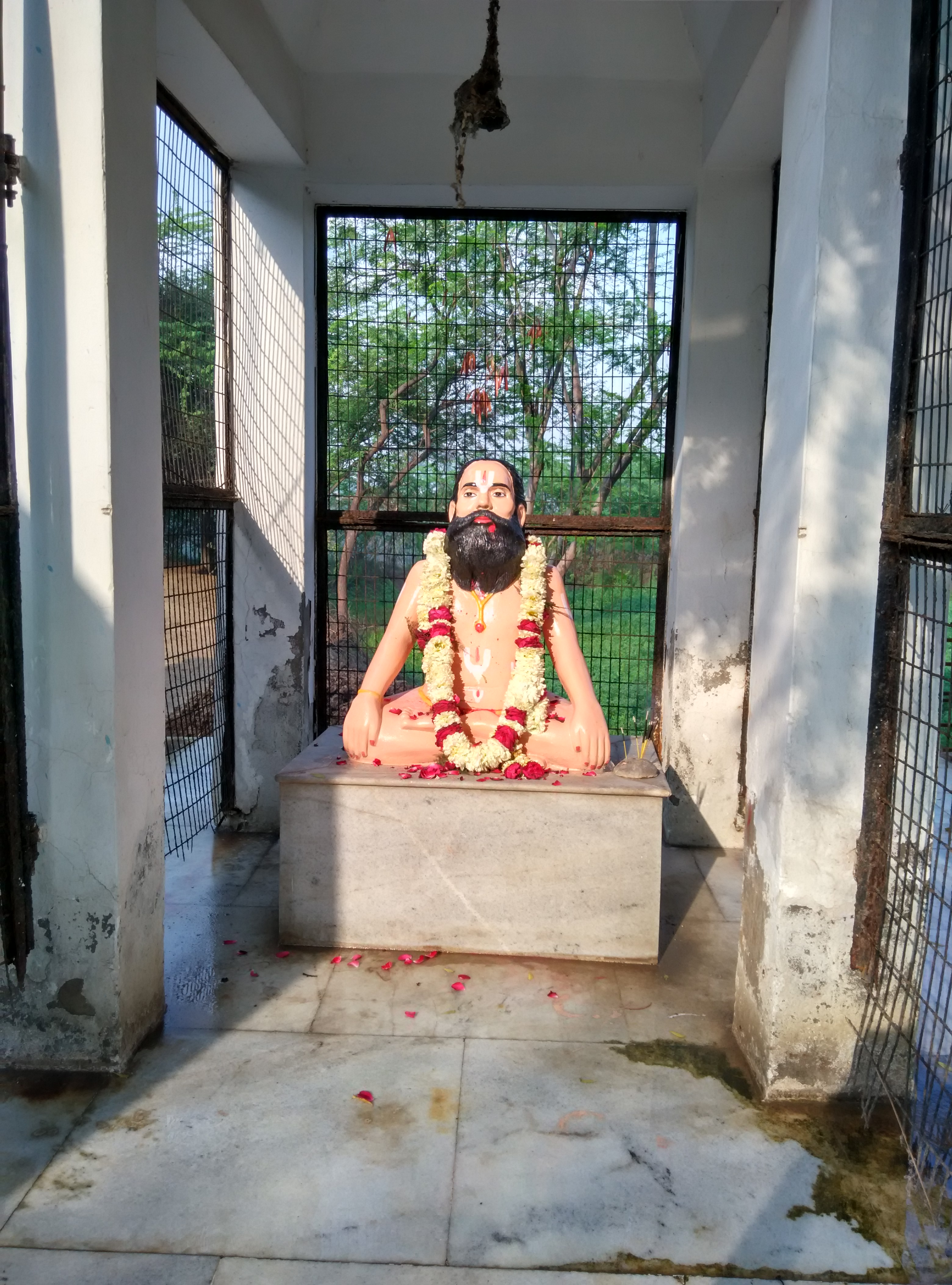 TYAAGI Baba